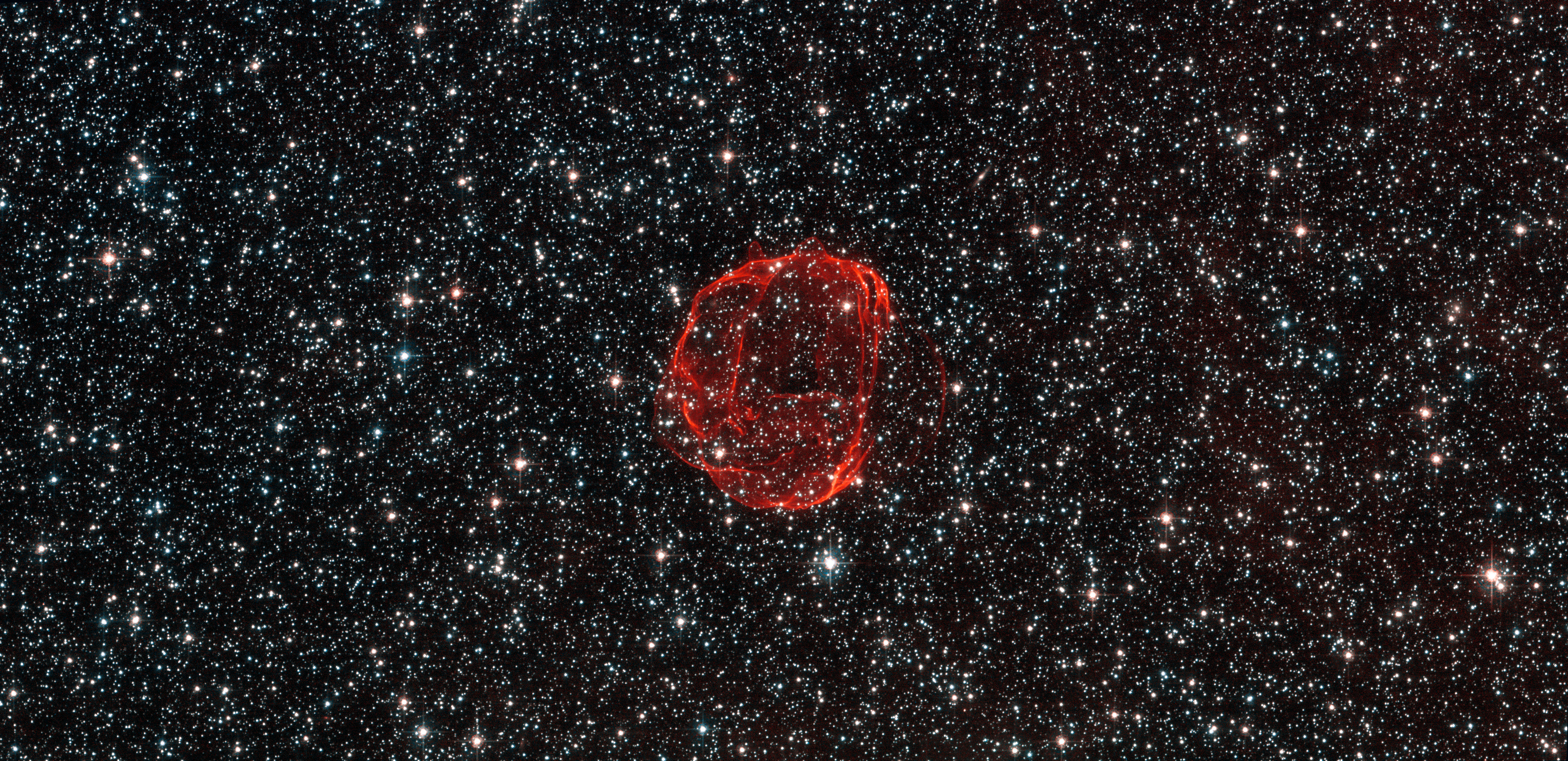 These delicate wisps of gas make up an object known as SNR B0519-69.0, or SNR 0519 for short. The thin, blood-red shells are actually the remnants from when an unstable progenitor star exploded violently as a supernova around 600 years ago. There are several types of supernova, but for SNR 0519 the star that exploded is known to have been a white dwarf star — a Sun-like star in the final stages of its life. SNR 0519 is located over 150 000 light-years from Earth in the southern constellation of Dorado (The Dolphinfish), a constellation that also contains most of our neighbouring galaxy the Large Magellanic Cloud (LMC). Because of this, this region of the sky is full of intriguing and beautiful deep sky objects. The LMC orbits the Milky Way galaxy as a satellite and is the fourth largest in our group of galaxies, the Local Group. SNR 0519 is not alone in the LMC; the NASA/ESA Hubble Space Telescope also came across a similar bauble a few years ago in SNR B0509-67.5, a supernova of the same type as SNR 0519 with a strikingly similar appearance. A version of this image was submitted to the Hubble’s Hidden Treasures Image Processing Competition by Claude Cornen, and won sixth prize.